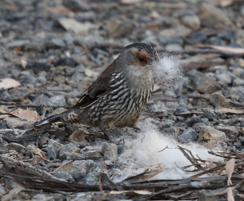 Red-browed treecreeper, New England National Park, NSW